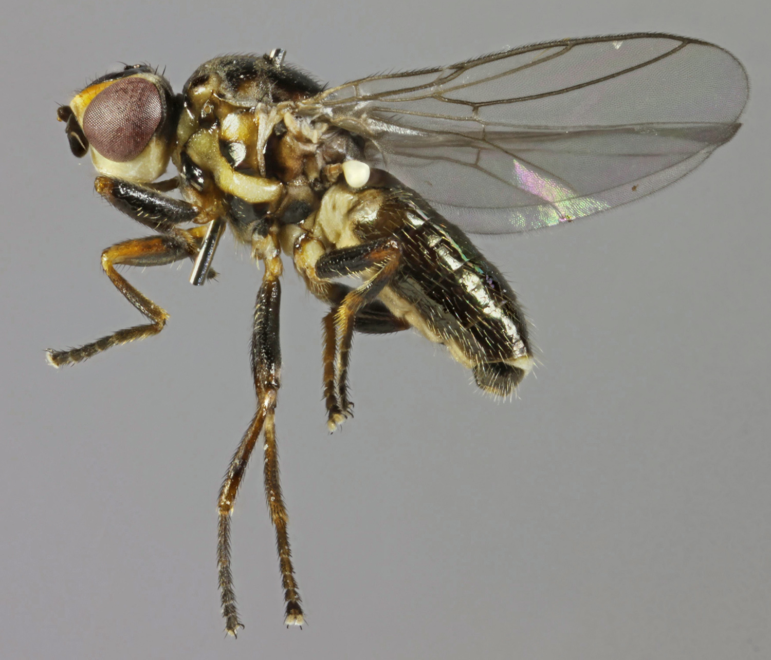 Diplotoxa messoria, Glaslyn, North Wales, July 2013